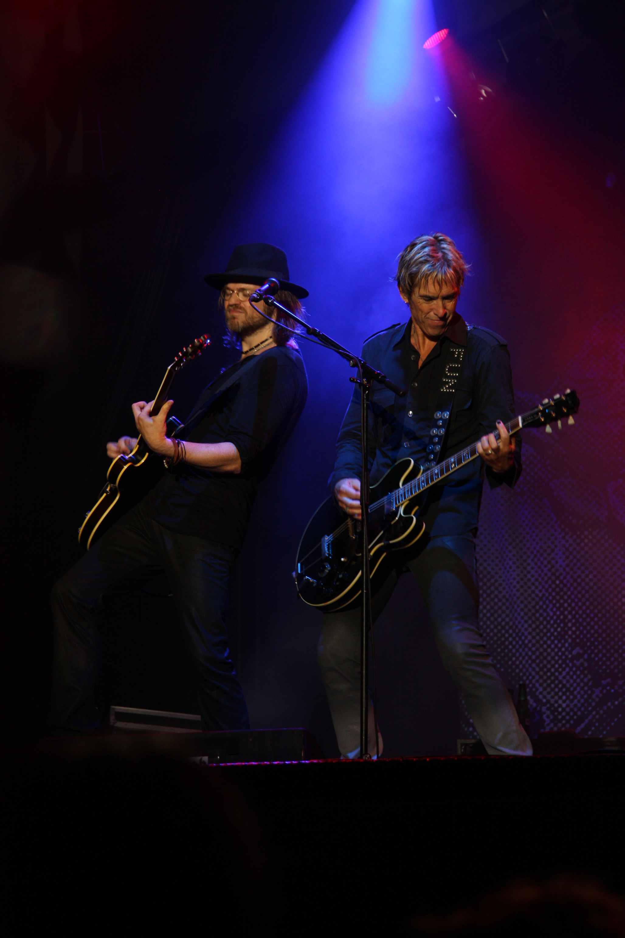 Per Gessle (to the right) together with Christoffer Lundqvist at the Roxette Concert in Halmstad 14 August 2010